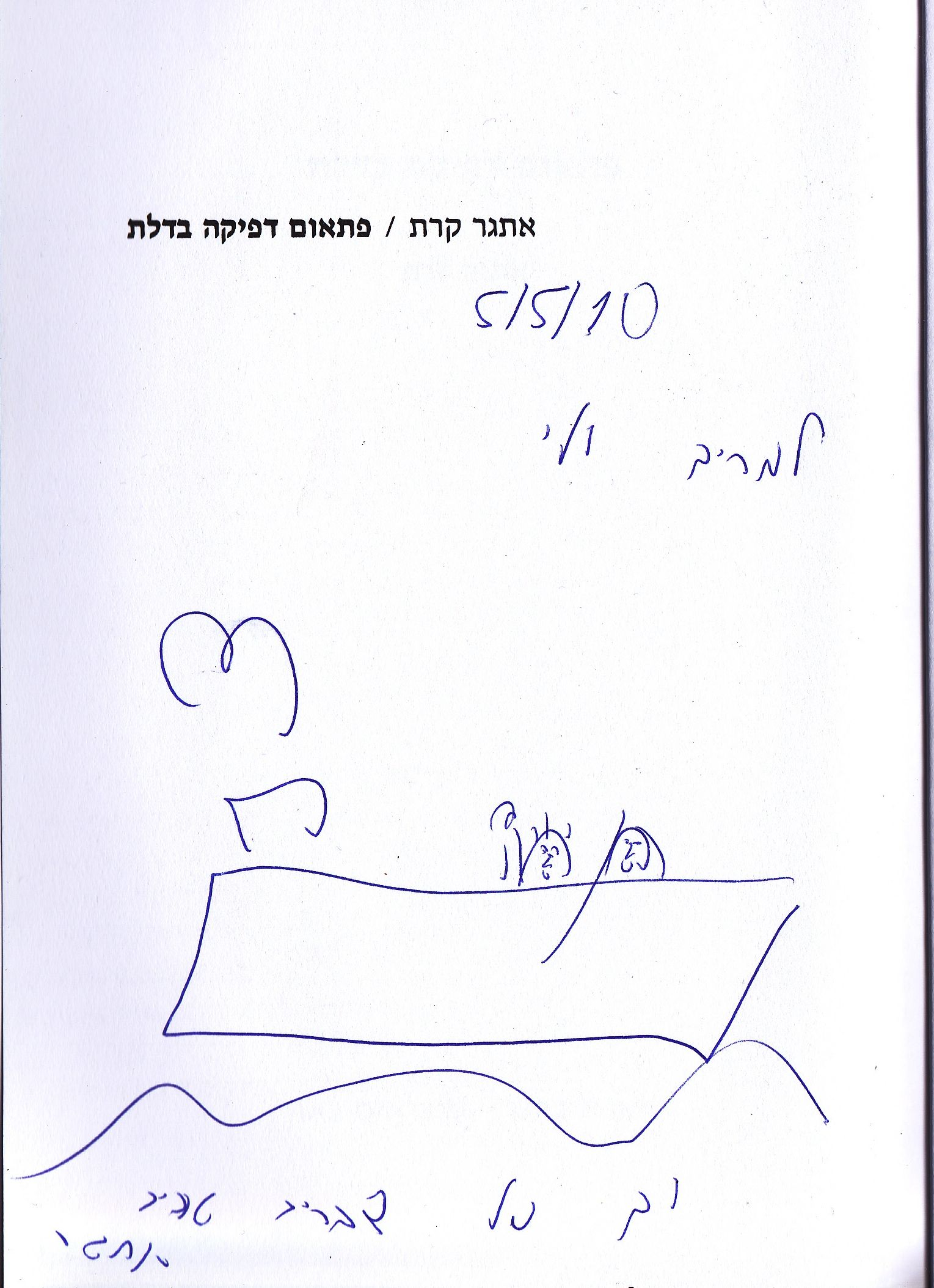 Autograph of Etgar Keret on his book for fans